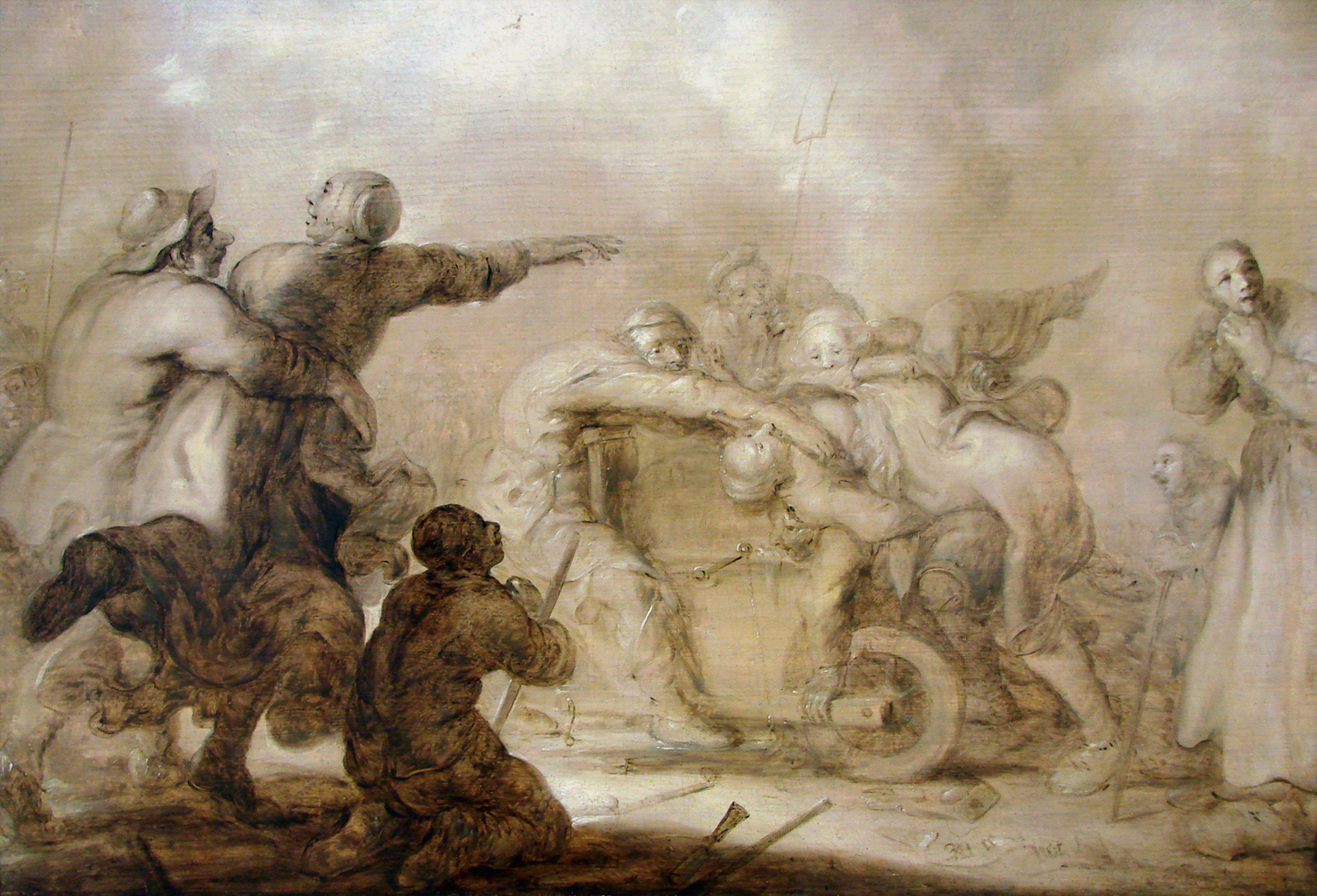 "Altogether too stupid!": a peasant woman gets her wits sharpened on the knife-grinder's whetstone as other are drawn in by the miracle cure